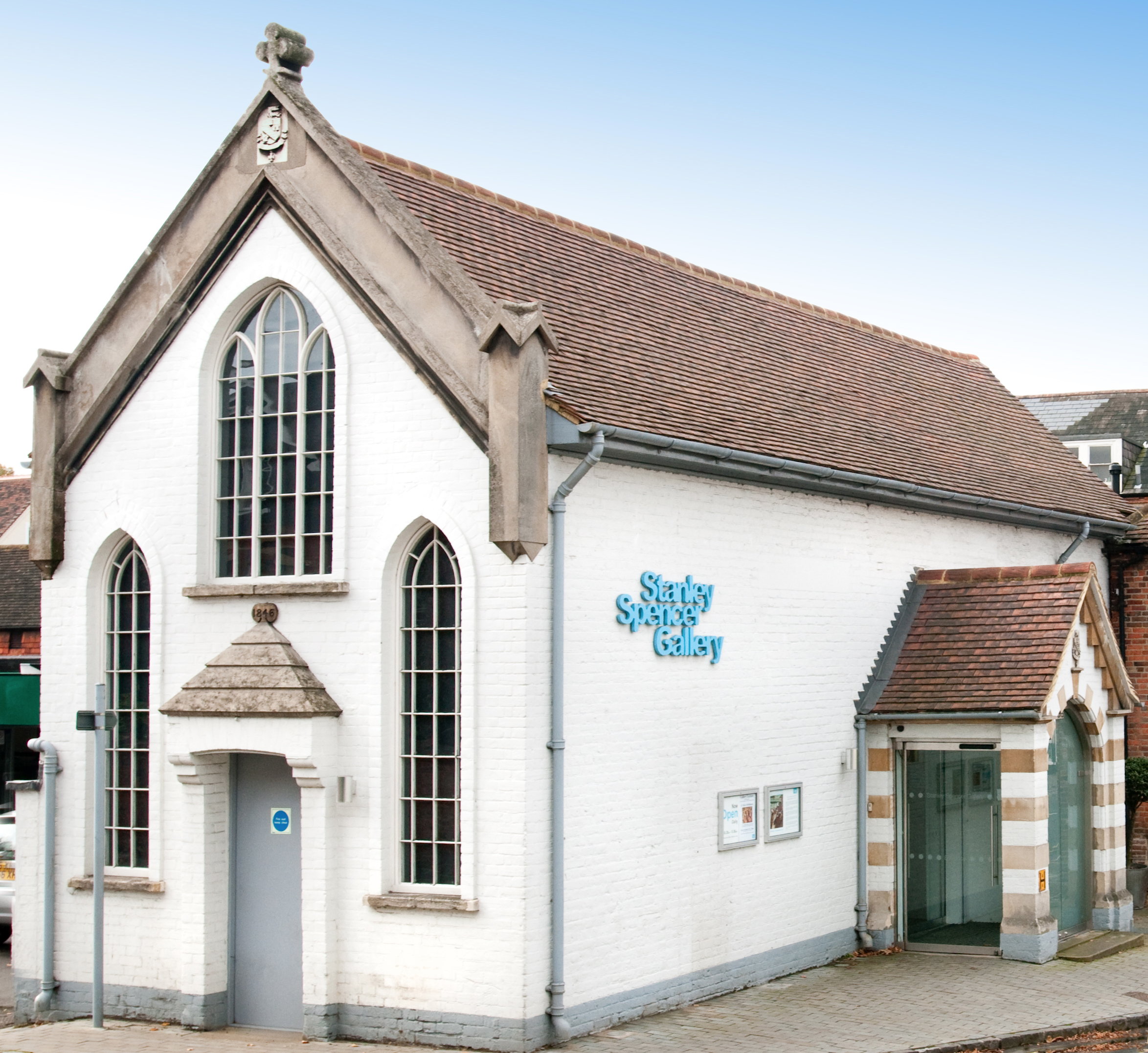 Stanley Spencer Gallery a view of the entire building